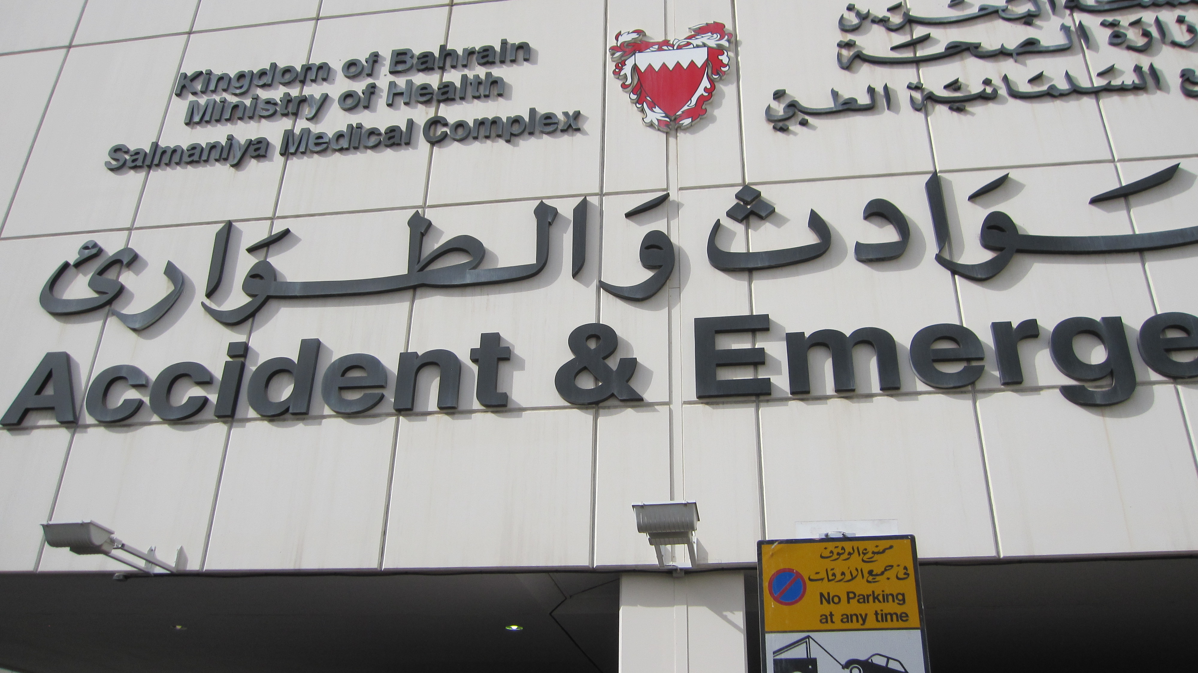 The dead and wounded were rushed to the capital's primary hospital.